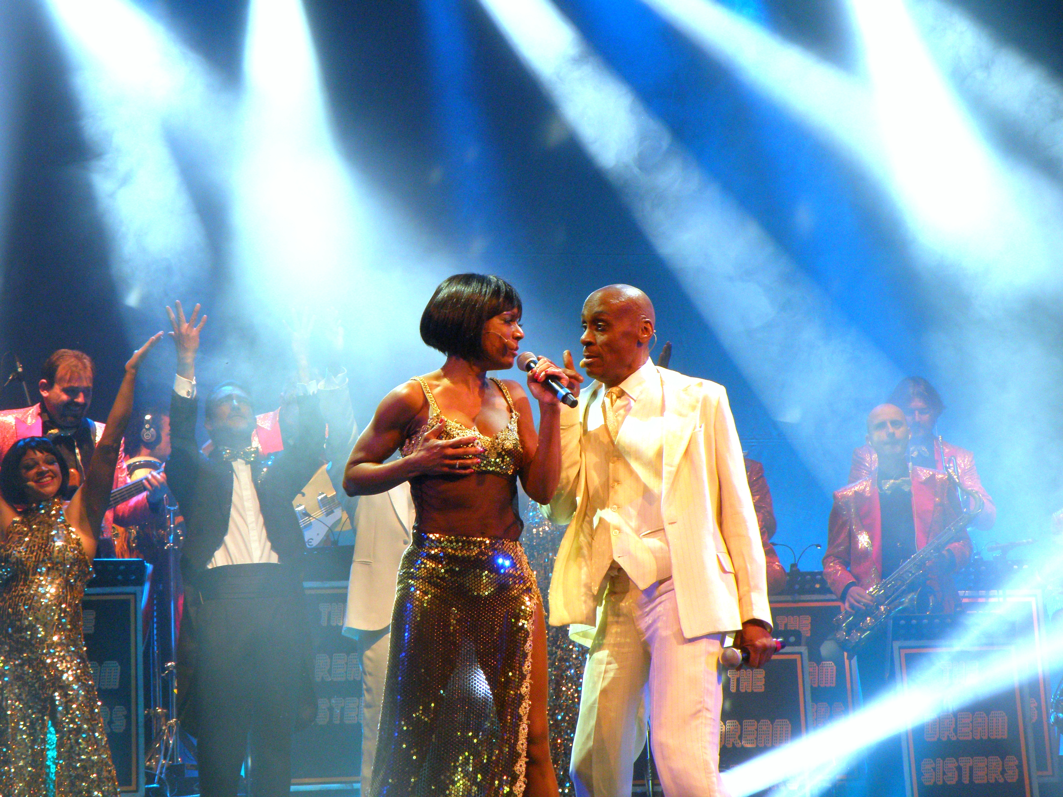 Amii Stewart and Will Weldon Roberson dancing and singing together in the show "La via del Successo - Dreamsister's" at Teatro Manzoni in Milano, Italy.